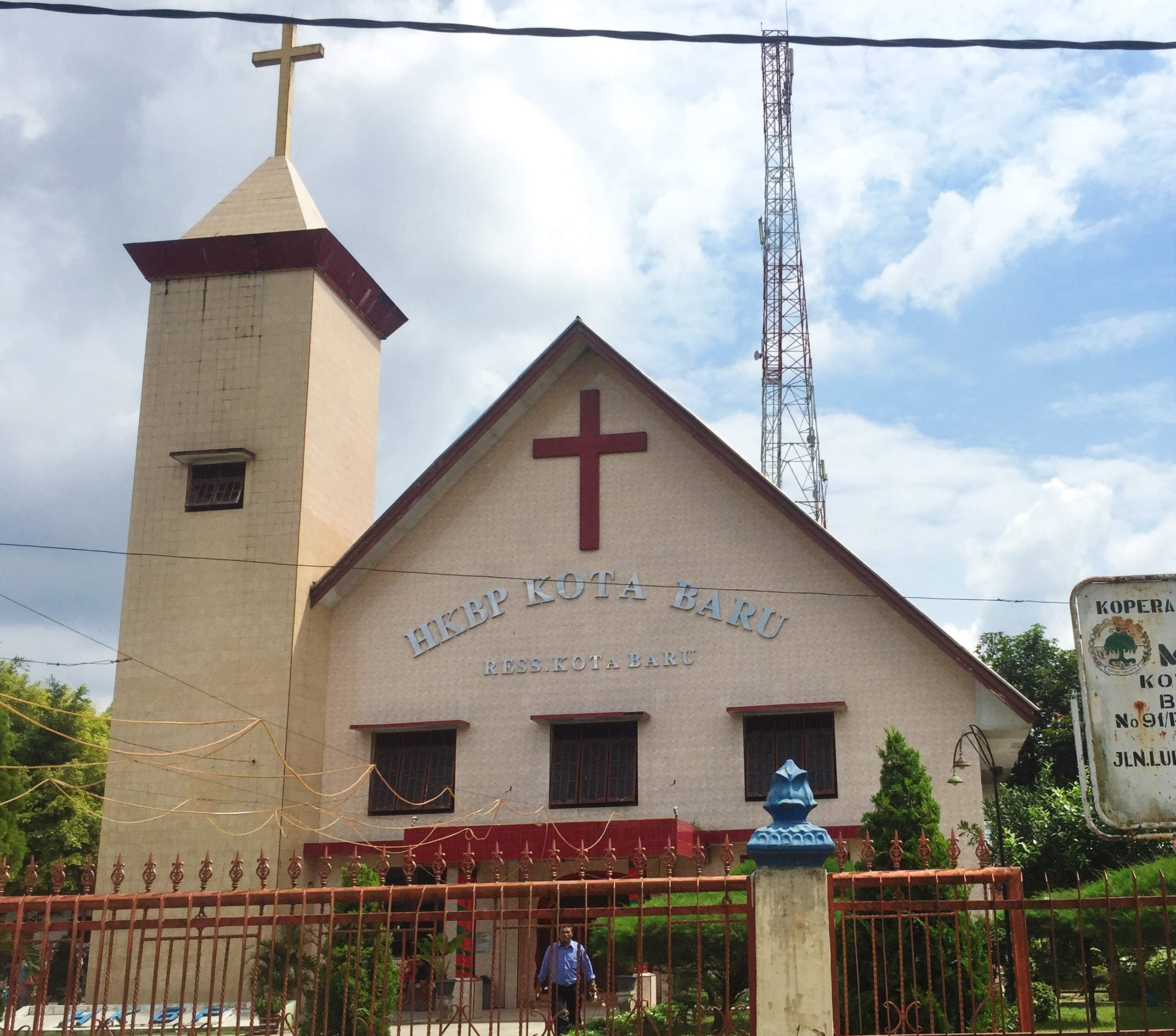 HKBP Kota Baru, Church in Lubuk Raya, Padang Hulu, Tebing Tinggi, North Sumatra